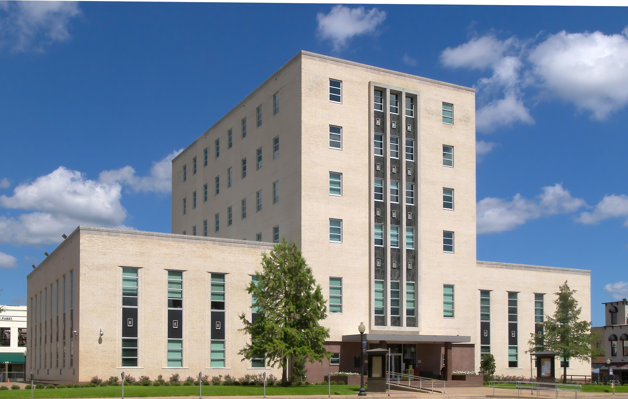 The Smith County Courthouse located in Tyler, Texas, United States.